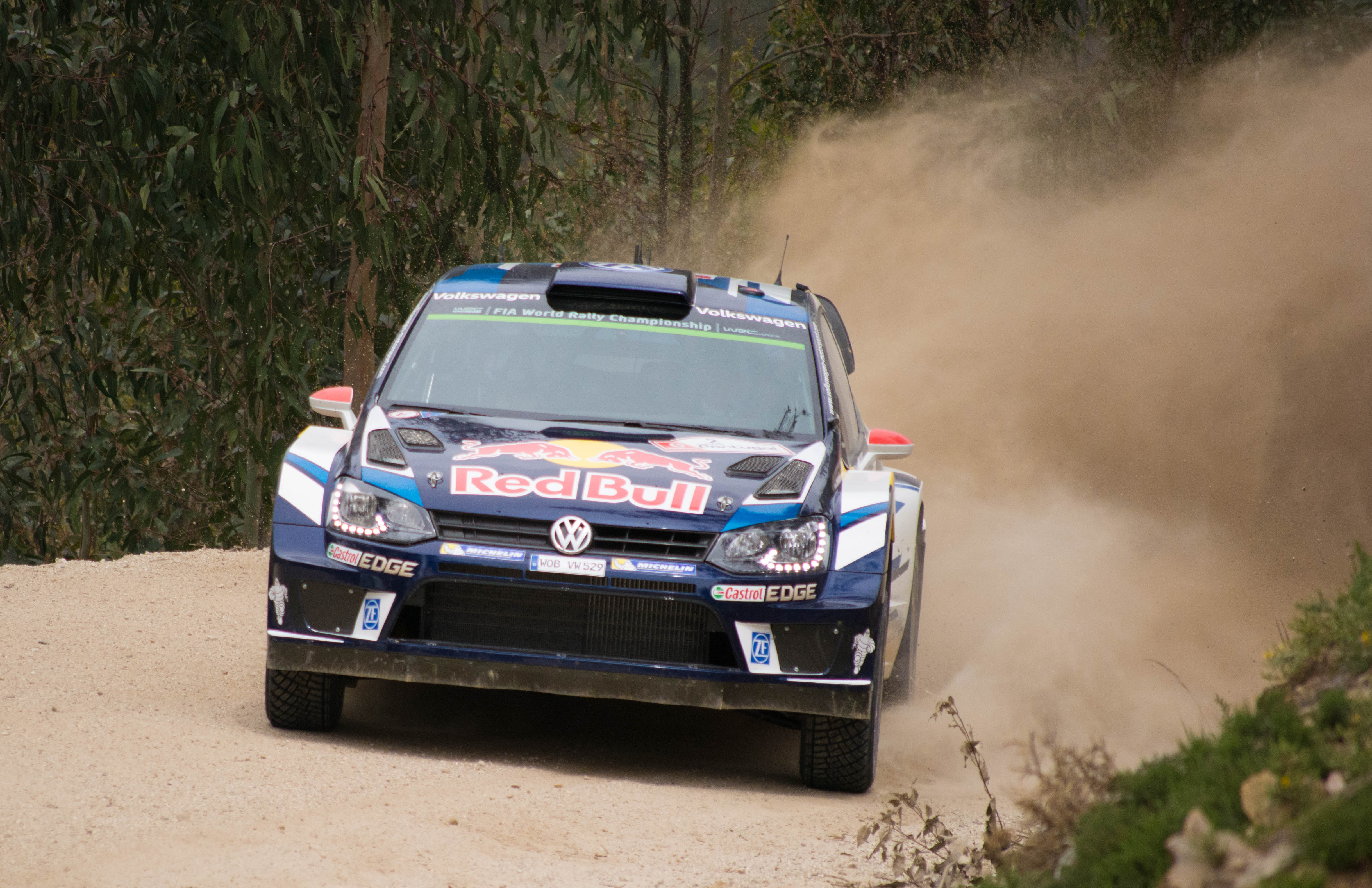 Rally of Portugal 2016. Section of "Amarante", on the first pass